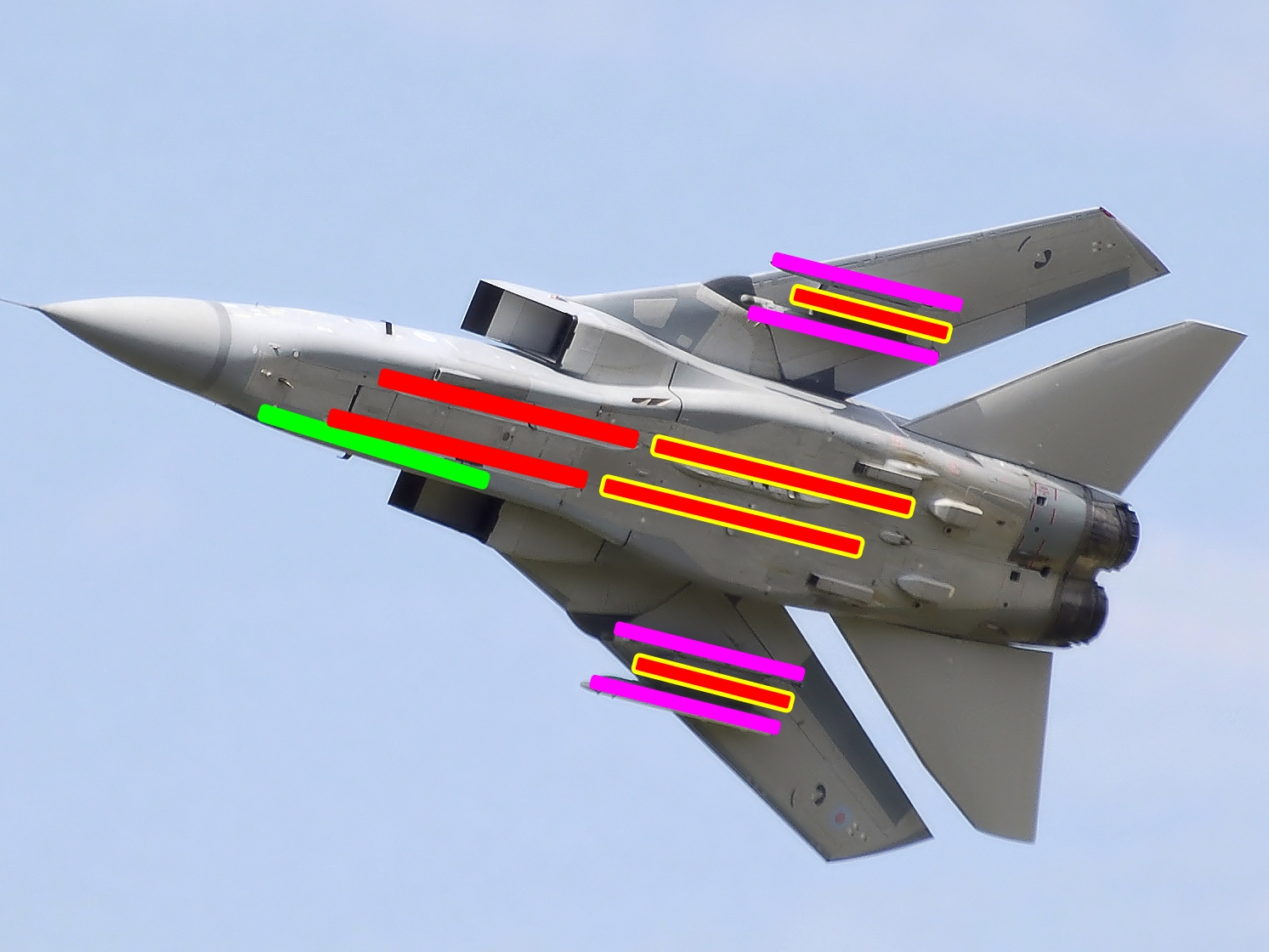 Derivative of File:Tornado f3 ze764 kemble arp.jpg. Original description: Panavia Tornado F3 (ZE764) at Kemble Air Day 2008, Kemble Airport, Gloucestershire, England.